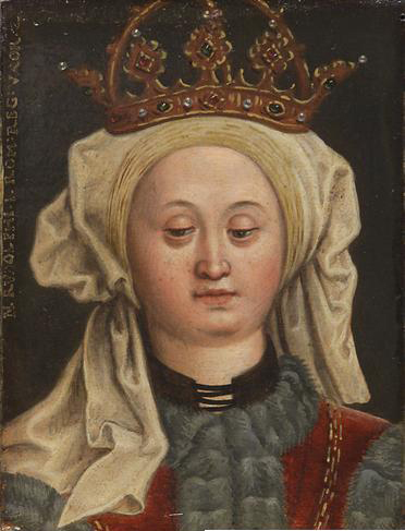 Agnes (Elisabeth) of Burgundy, 2nd wife of Rudolph I